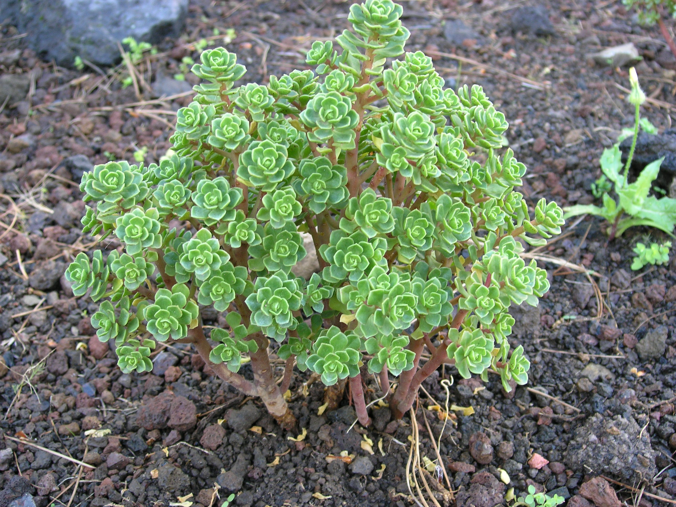 Aeonium spathulatum ssp. spathulatum from Jardin botanico, Gran Canaria. 28. 2. 2006